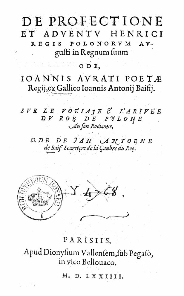 Title page of work by Baif translated by Jean Dorat